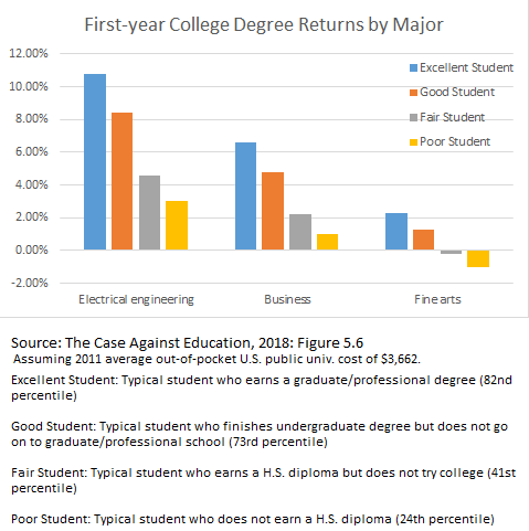 First-year U.S. college degree returns for select majors, by type of student. Assumes 2011 average out-of-pocket costs for U.S. public universities.